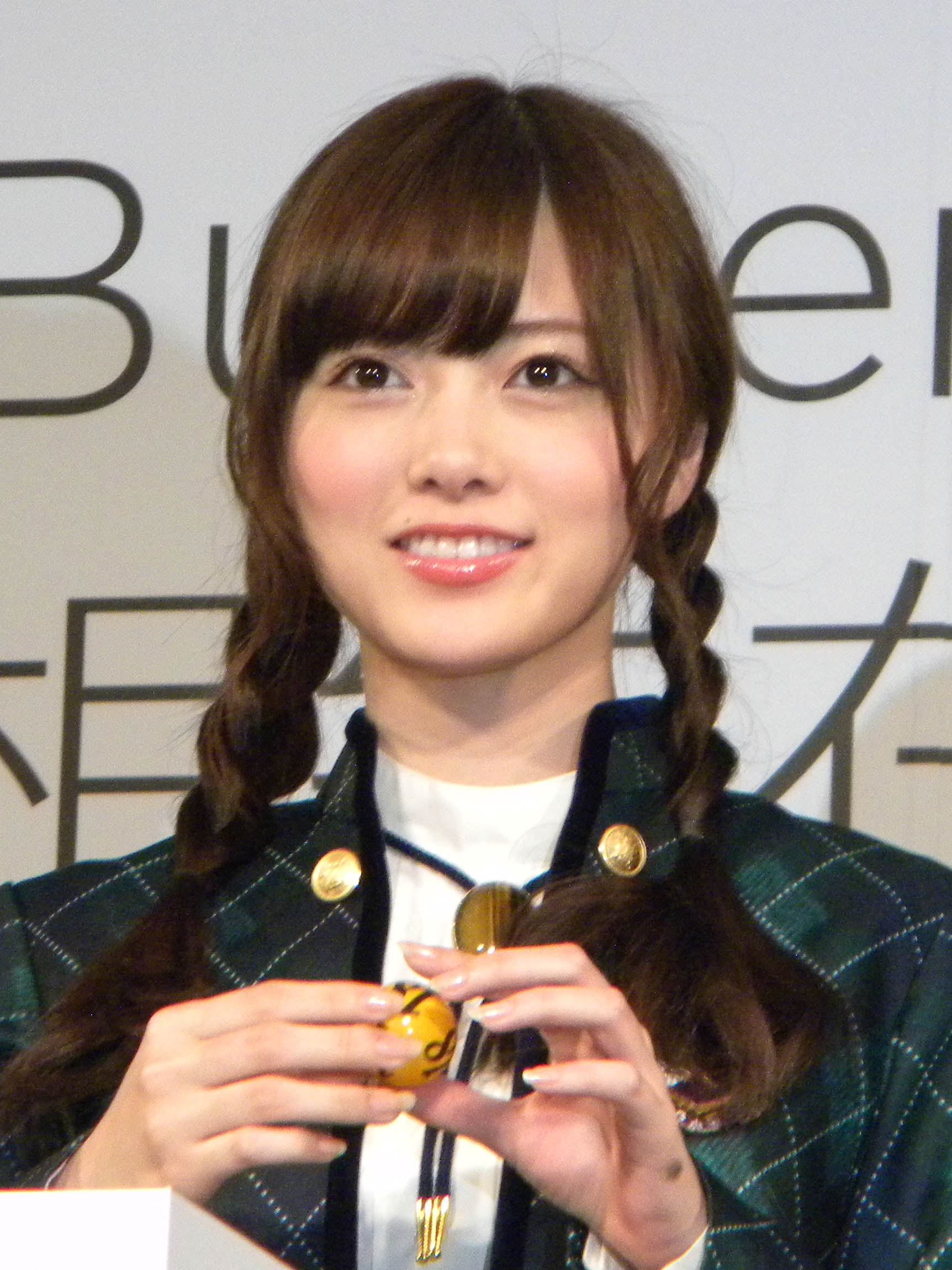 Mai Shiraishi (Nogizaka46) on HTC and Chunghwa Telecom HTC Butterfly 2 joint marketing event at Taipei, Taiwan.